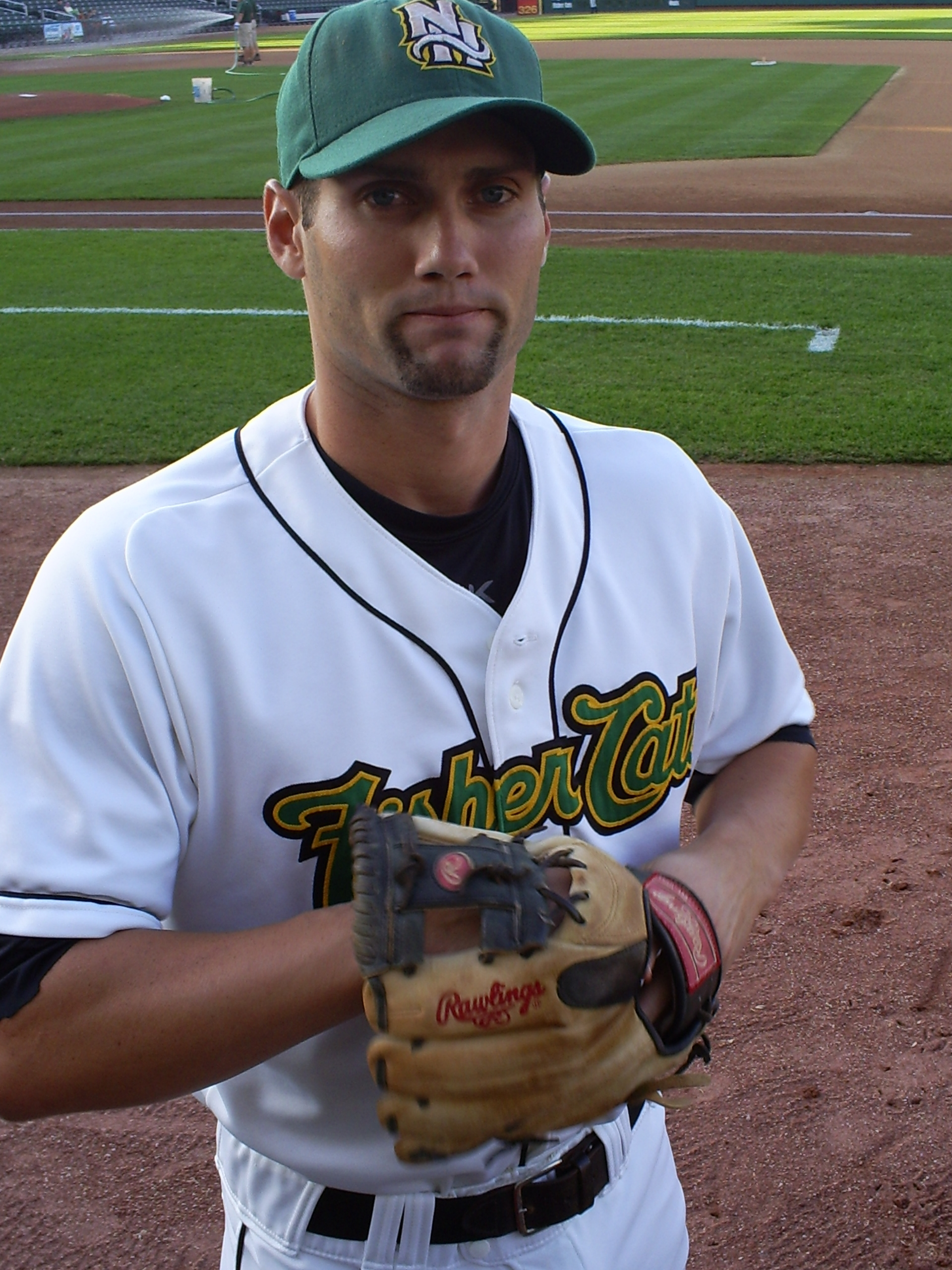 Photo by Craig Michaud. Photo was taken in 2008 while playing for the New Hampshire Fisher Cats 02:03, 9 February 2009 . . Thebudman623 . . 1,920×2,560 (2.22 MB)